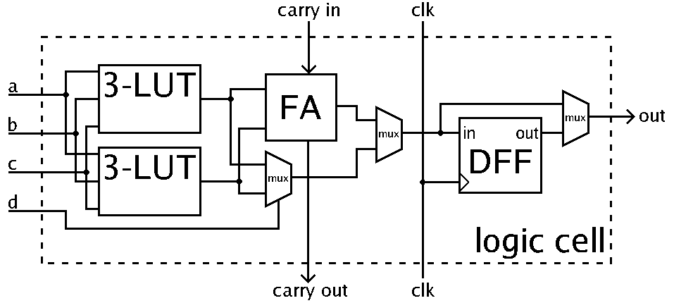 An example of how an FPGA logic cell can look like, incl a 4 inp. LUT (or two 3-LUTs), a Full Adder and a D-type Flip Flop. The 2 muxes to the right have their select signal set during the programming of the cell.